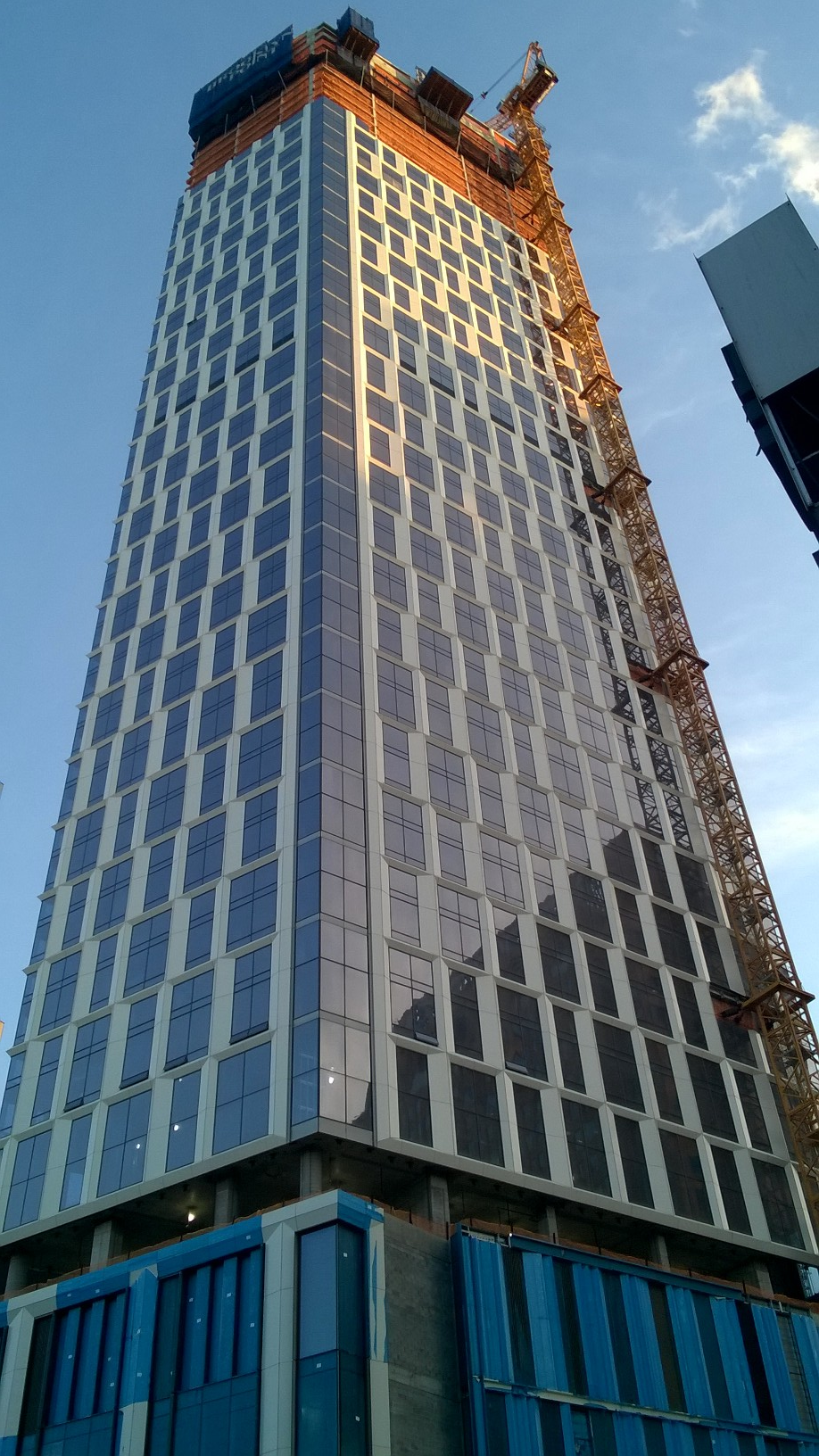 Ongoing construction of Brooklyn Point with the CityPoint complex in Downtown Brooklyn on May 27, 2019.